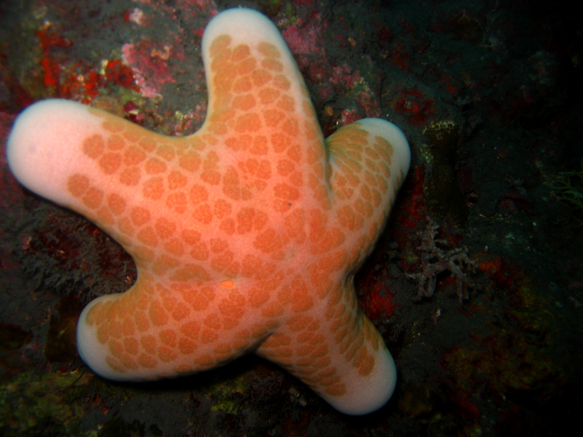 Granulated sea star (Choriaster granulatus) Image ID: reef4321, NOAA's Coral Kingdom Collection Location: Philippine Islands, Occidental Mindoro, Pandan Is.